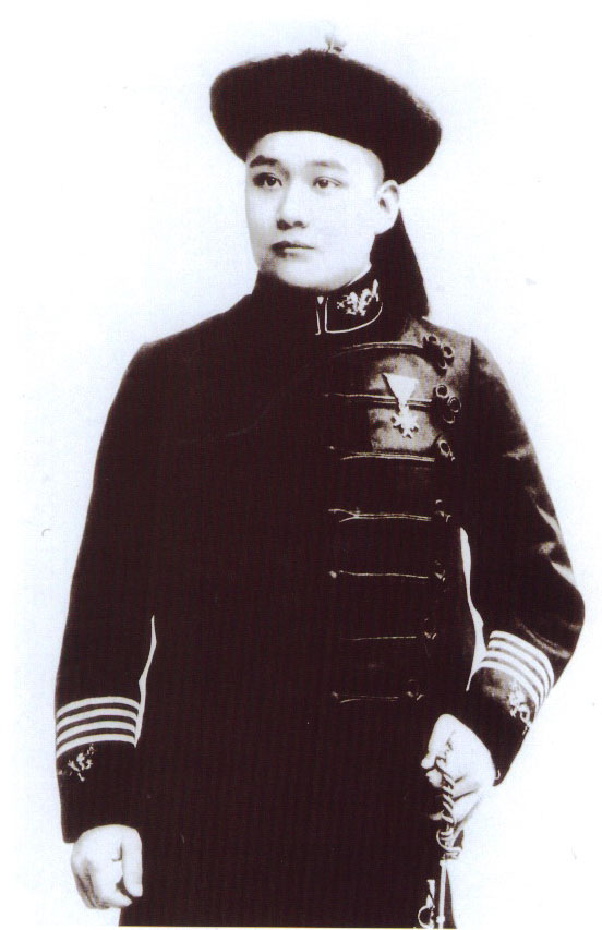 Photograph of Xunling, the personal photographer to the Empress Dowager Cixi of China.